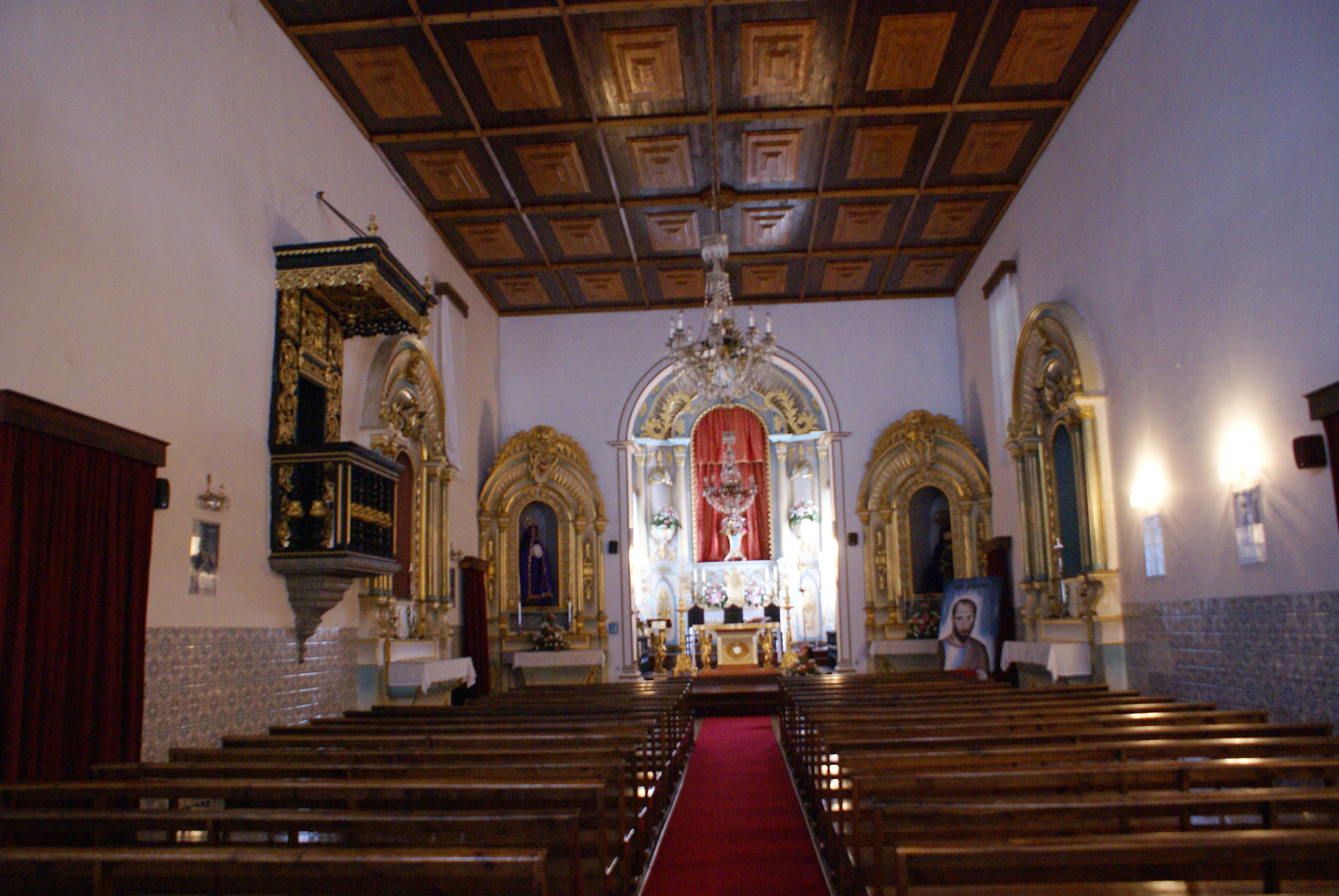 Nave of the Church of Nossa Senhora da Conceição, Mosteiros, São Miguel (Azores), Portugal